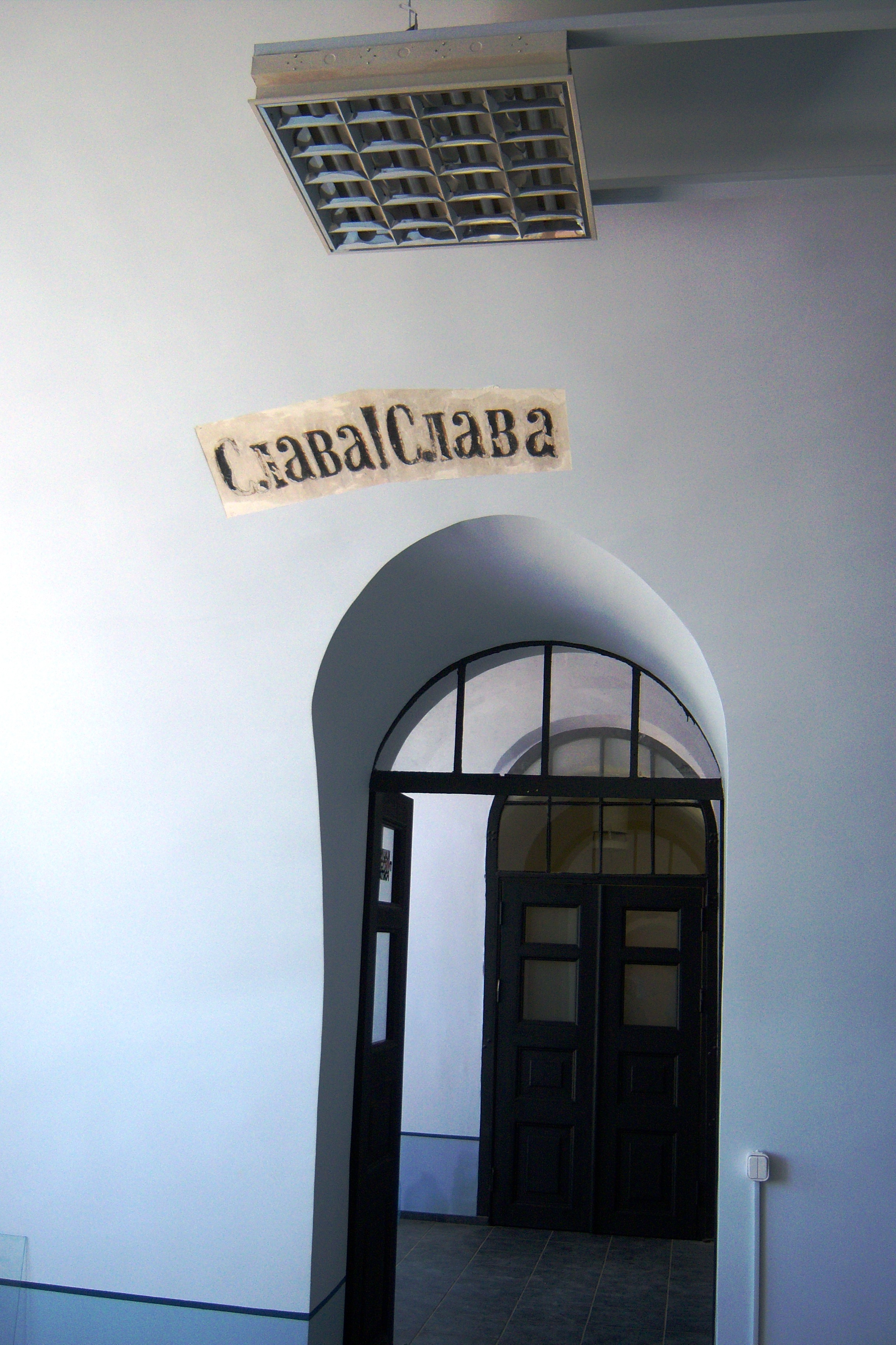 7th Kaunas Fort. In a casemate. Lithuania.